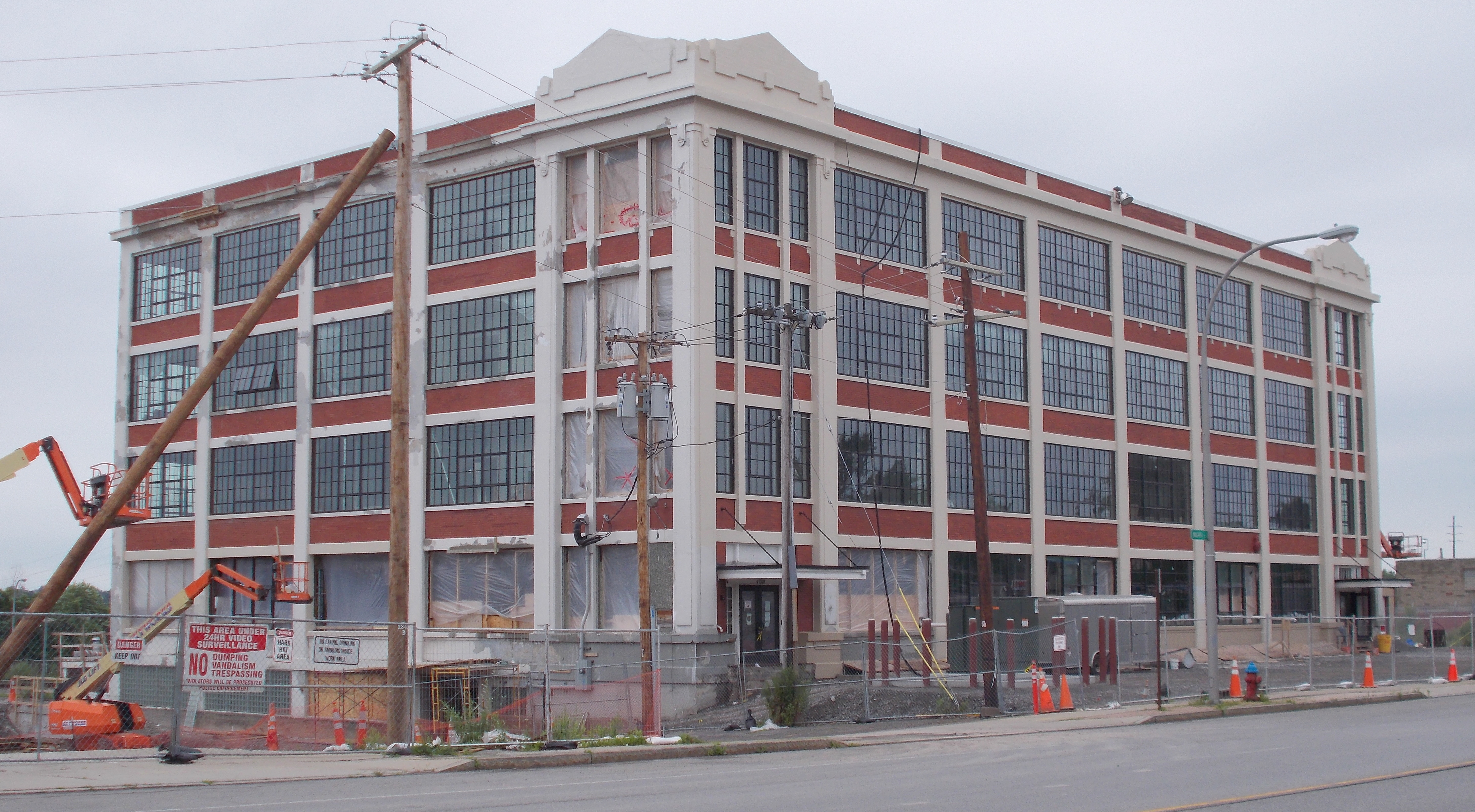 The Mentholatum Company Building, Buffalo, New York, July 2017